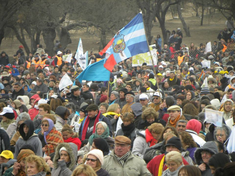 Pilgrims participate in the beatification ceremony for Roman Catholic priest Jose Gabriel Brochero. September 14, 2013.